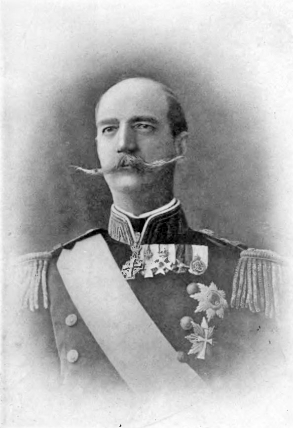 King George I of Greece.